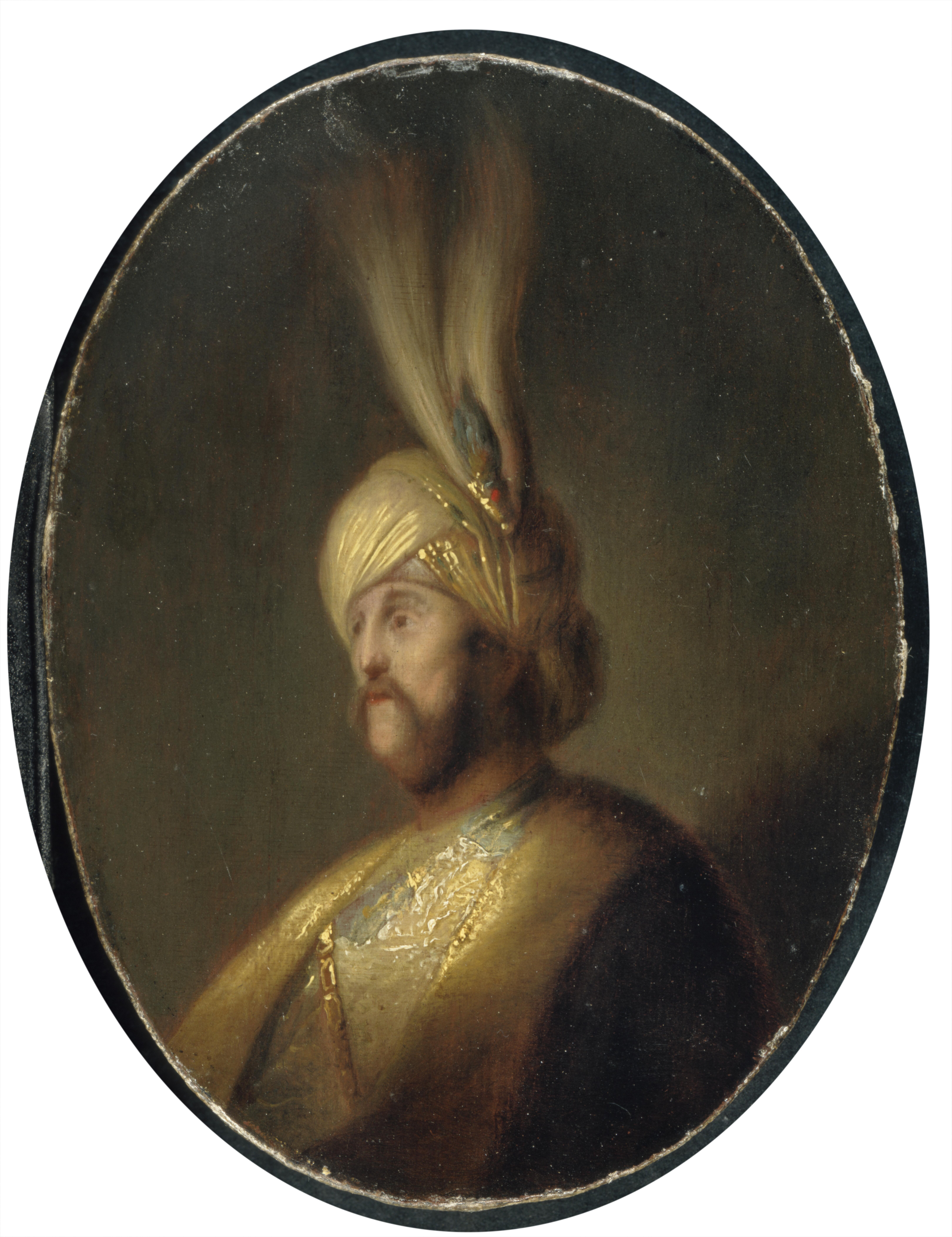 Man in a turban; portrait of a gentleman, half-length, in oriental costume who is the same person known as "Rembrandt's father".